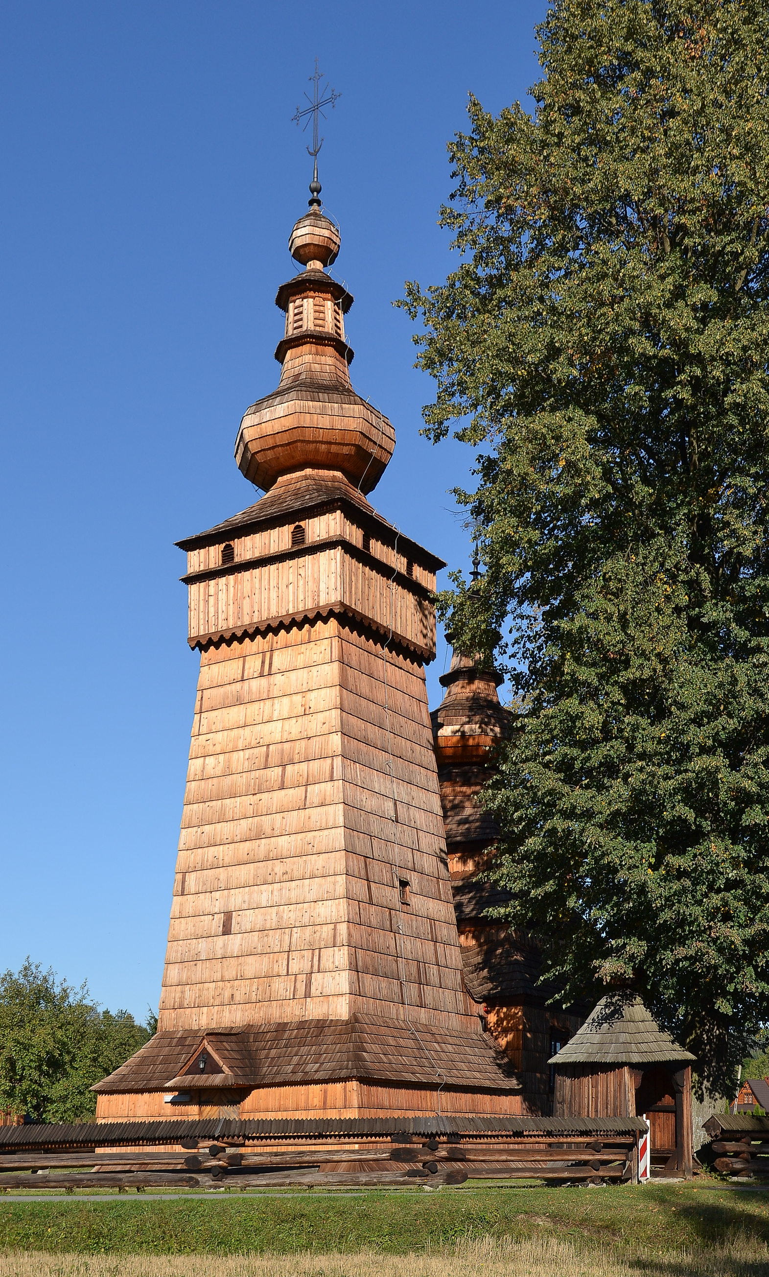 Paraskevi of Iconium church in Kwiatoń, Poland